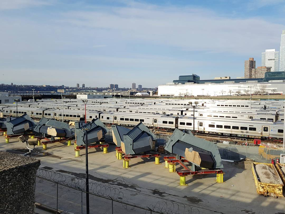 end of the line 🗽 #newyork #nyc #usa #nofilter #subway #train